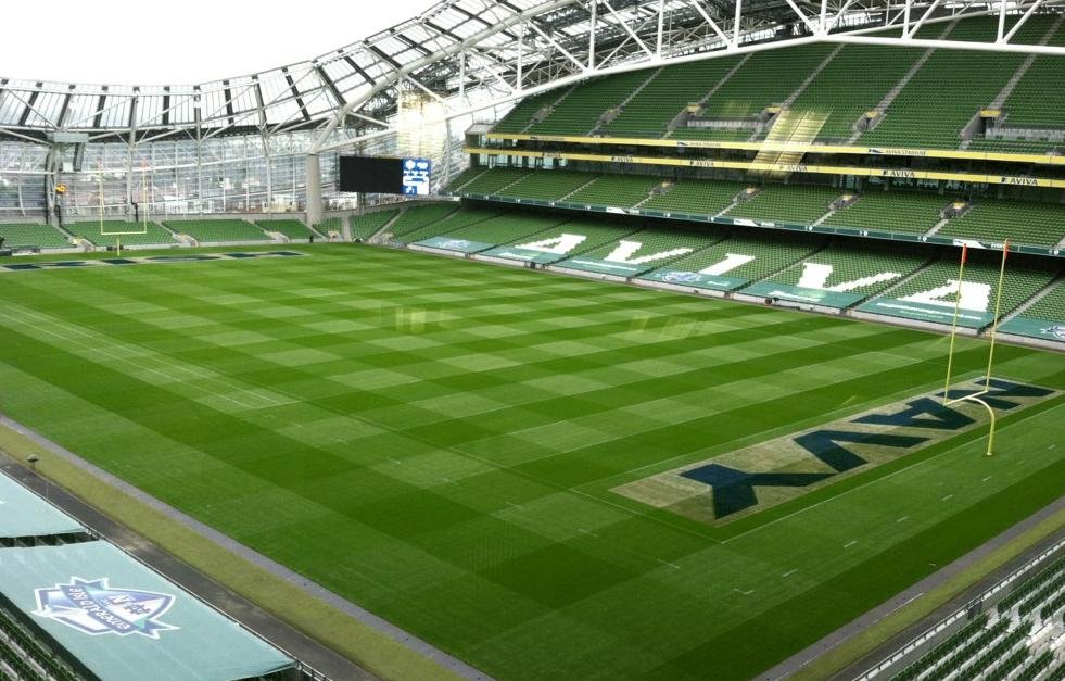 Pitch Layout. Navy vs ND